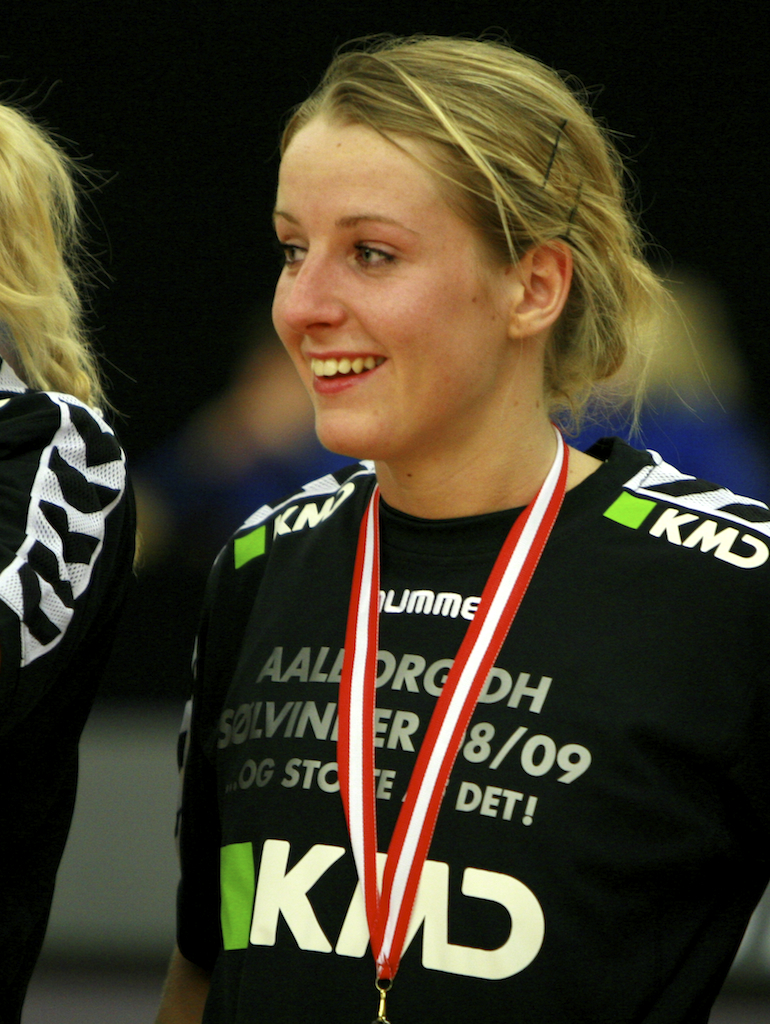 Lærke Møller from Aalborg DH.